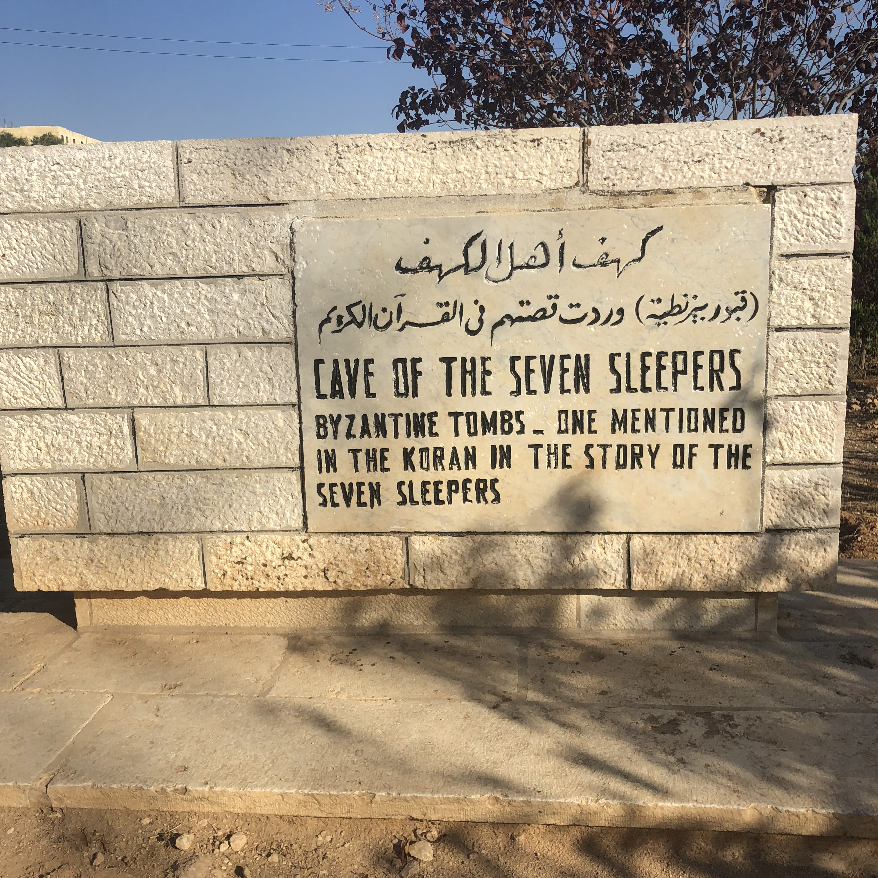 لوحة كتب عليها (قبور بيزنطية وردت قصتهم في القرآن الكريم)، باللغتين العربية والإنجليزية